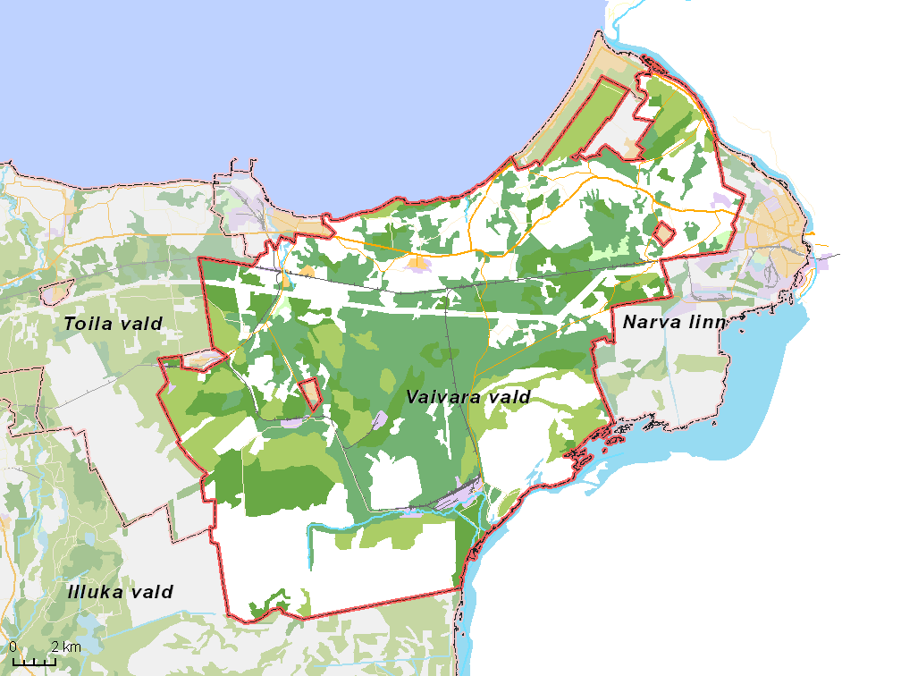 Map of municipality in Estonia